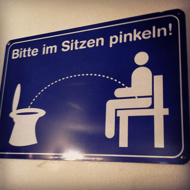 Please sit in pee